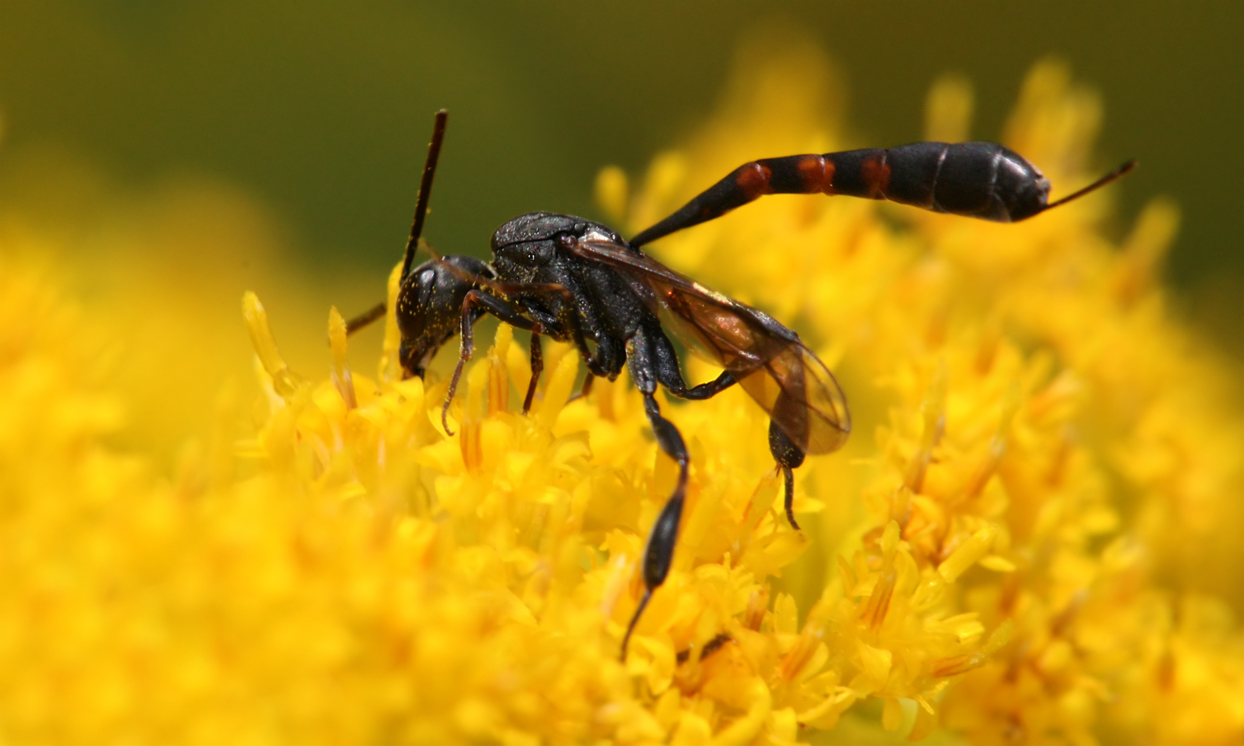 Description: Gasteruptiidae is one of the more distinctive among the Apocritan wasps, with surprisingly little variation in appearance for a group that contains around 500 species in 9 genera worldwide. The propleura form an elongated "neck", the petiole attaches very high on the propodeum, and the hind tibiae are swollen and club-like. The females commonly have a long ovipositor, and lay eggs in the nests of solitary bees and wasps, where their larvae prey upon the host larvae and provisions. As shown a Gasteruption assectator